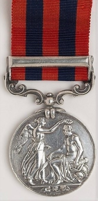 British campaign medal for small wars on India's frontiers between 1854 and 1894.